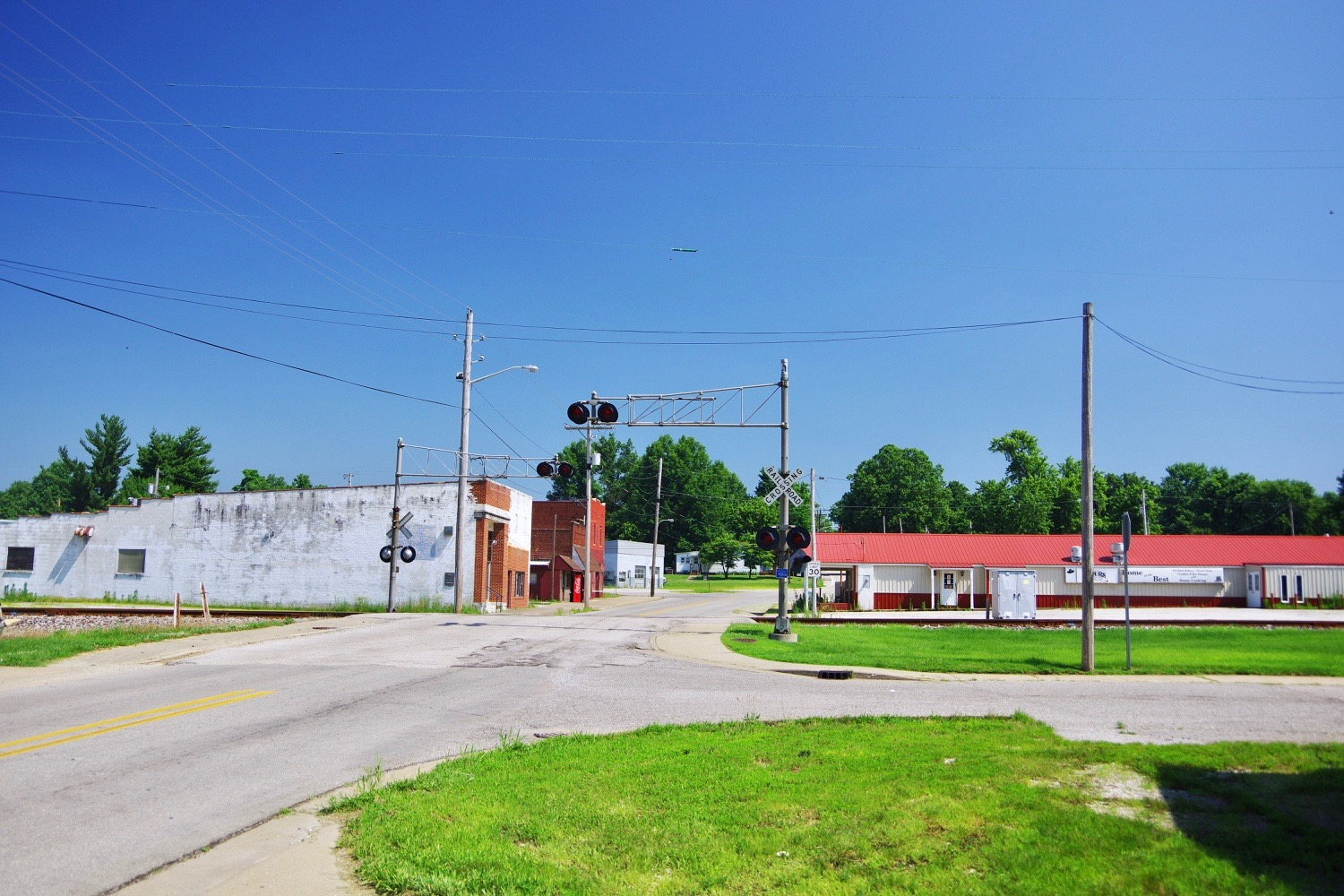 View along Main Street (State Road 161) in Tennyson, Indiana, United States.